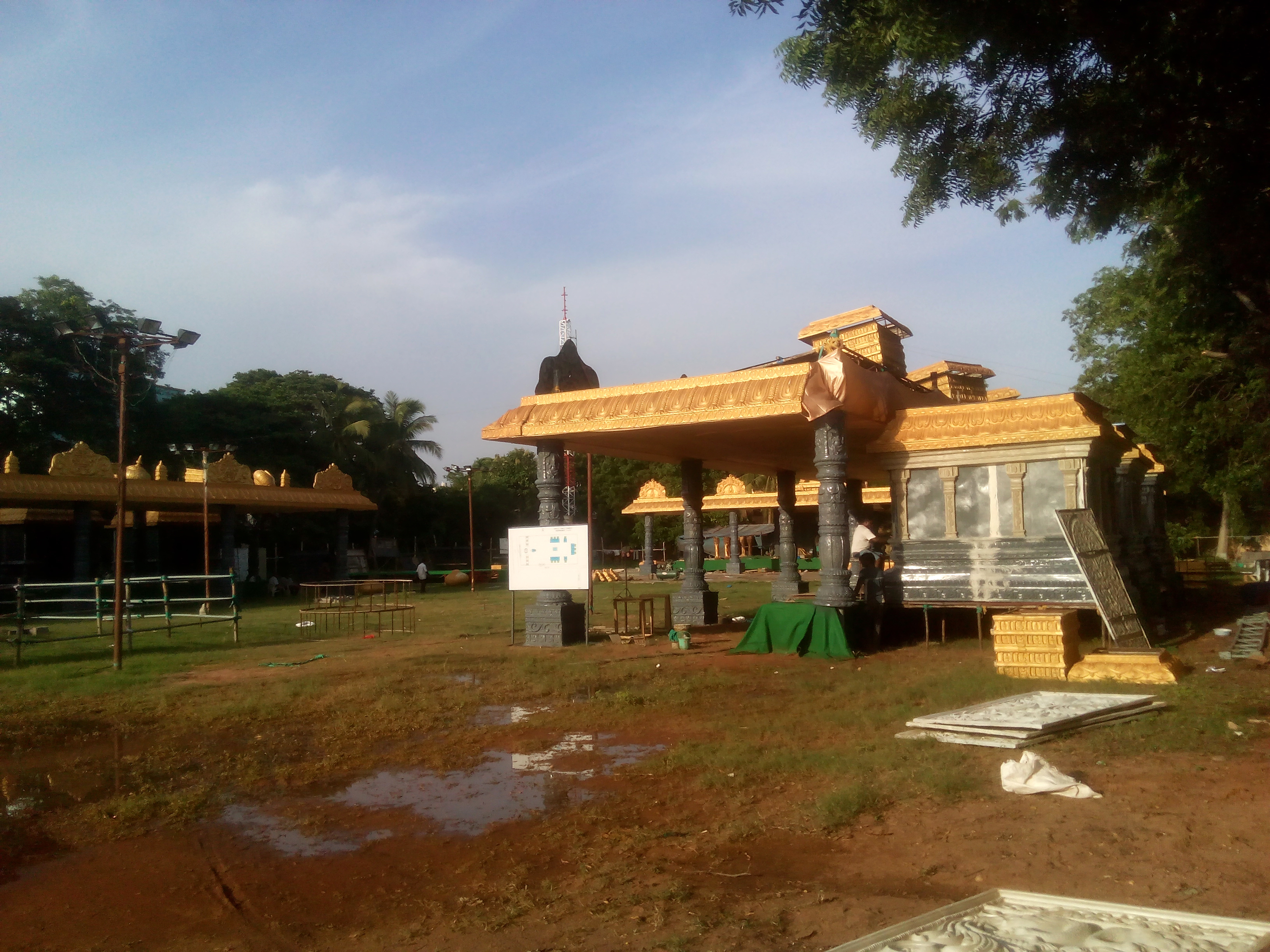 Rajamandry Godavari Pushkaralu 2015 (Godavari Kumbhamela)